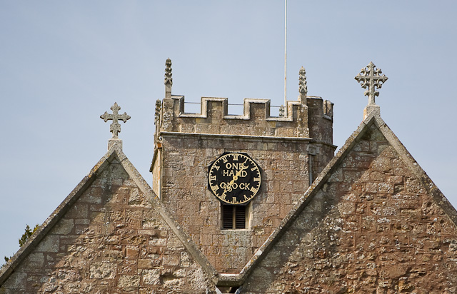 One-handed Clock on St Nicolas Church, North Stoneham